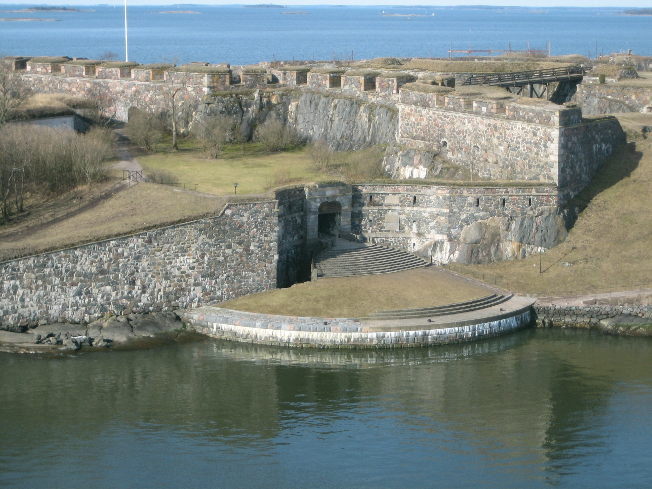 Kuninkaanportti (The King's Port) is part of Suomenlinna Fortress in front of Helsinki, Finland.